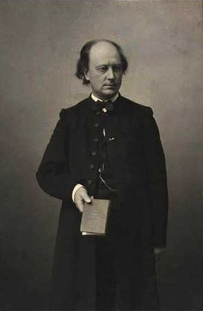 Harald August Edvard Stein (1840-1900), Danish bishop